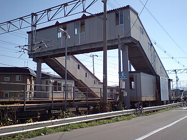 Aoimori Railway Yadamae Station